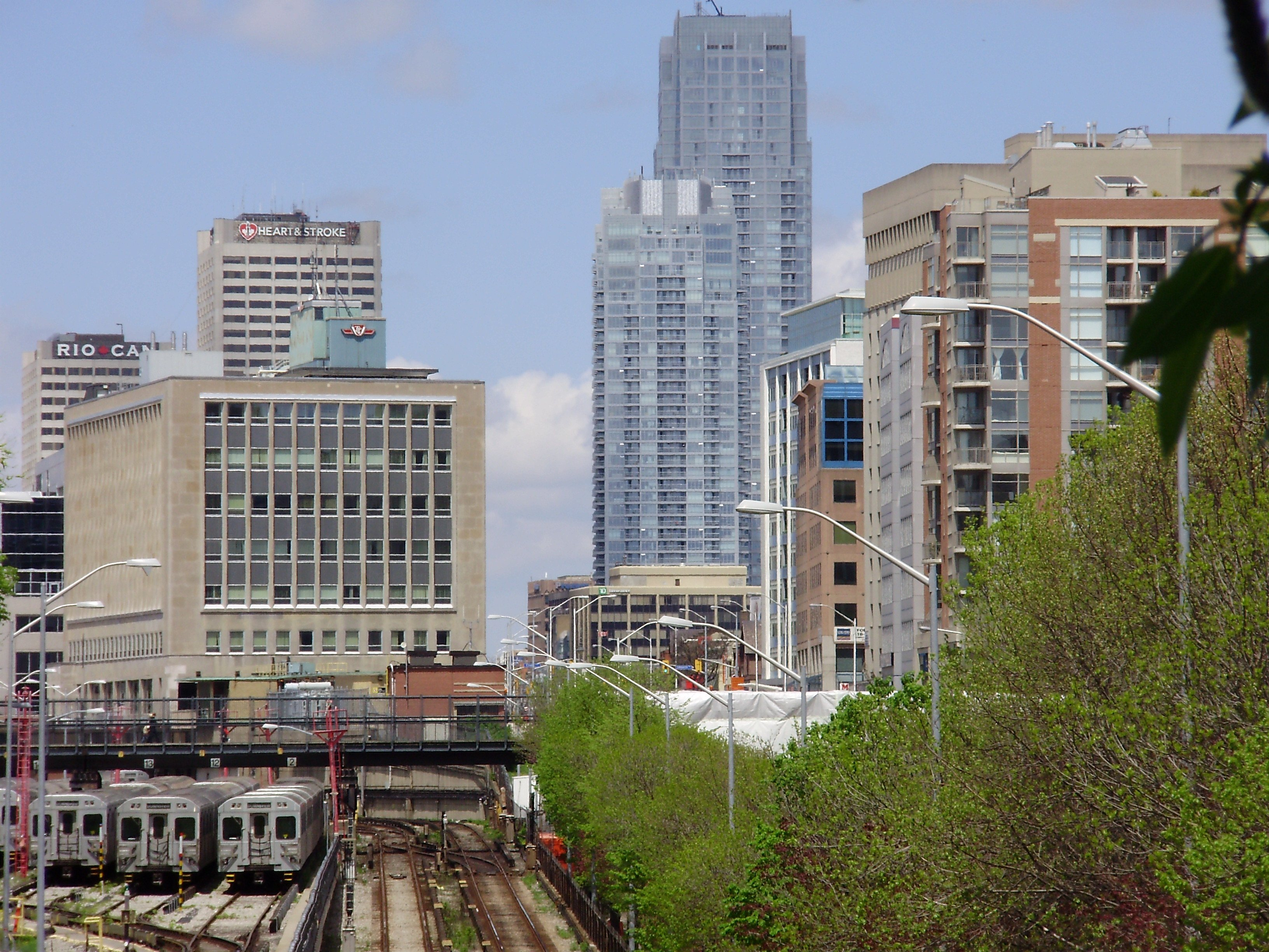 The skyline of Davisville, a former independent community, centered around the intersection of Yonge Street and Davisville Avenue in Toronto, Ontario, Canada.